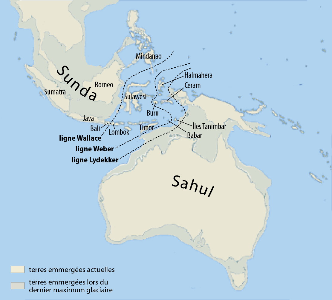 Map of Sunda and Sahul and the Wallace Line, the Lydekker Line and the Weber Linie